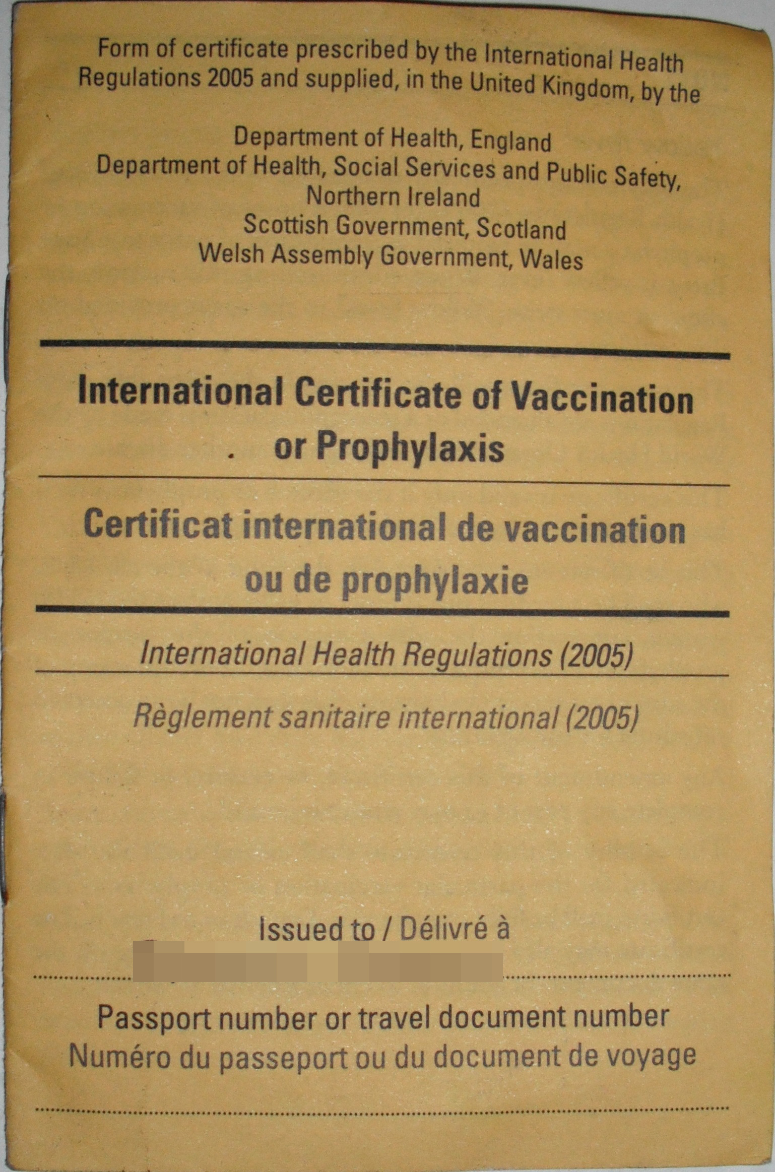 A photograph of a certificate of vaccination as required to prove that someone has been vaccinated against yellow fever